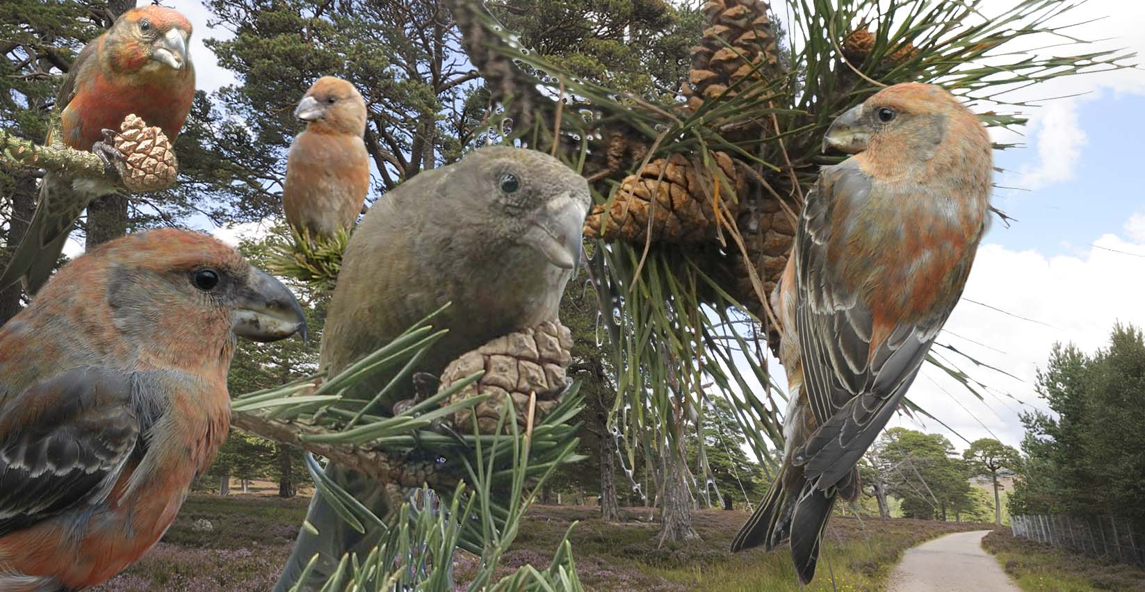 Parrot Crossbill from the Crossley ID Guide Britain and Ireland